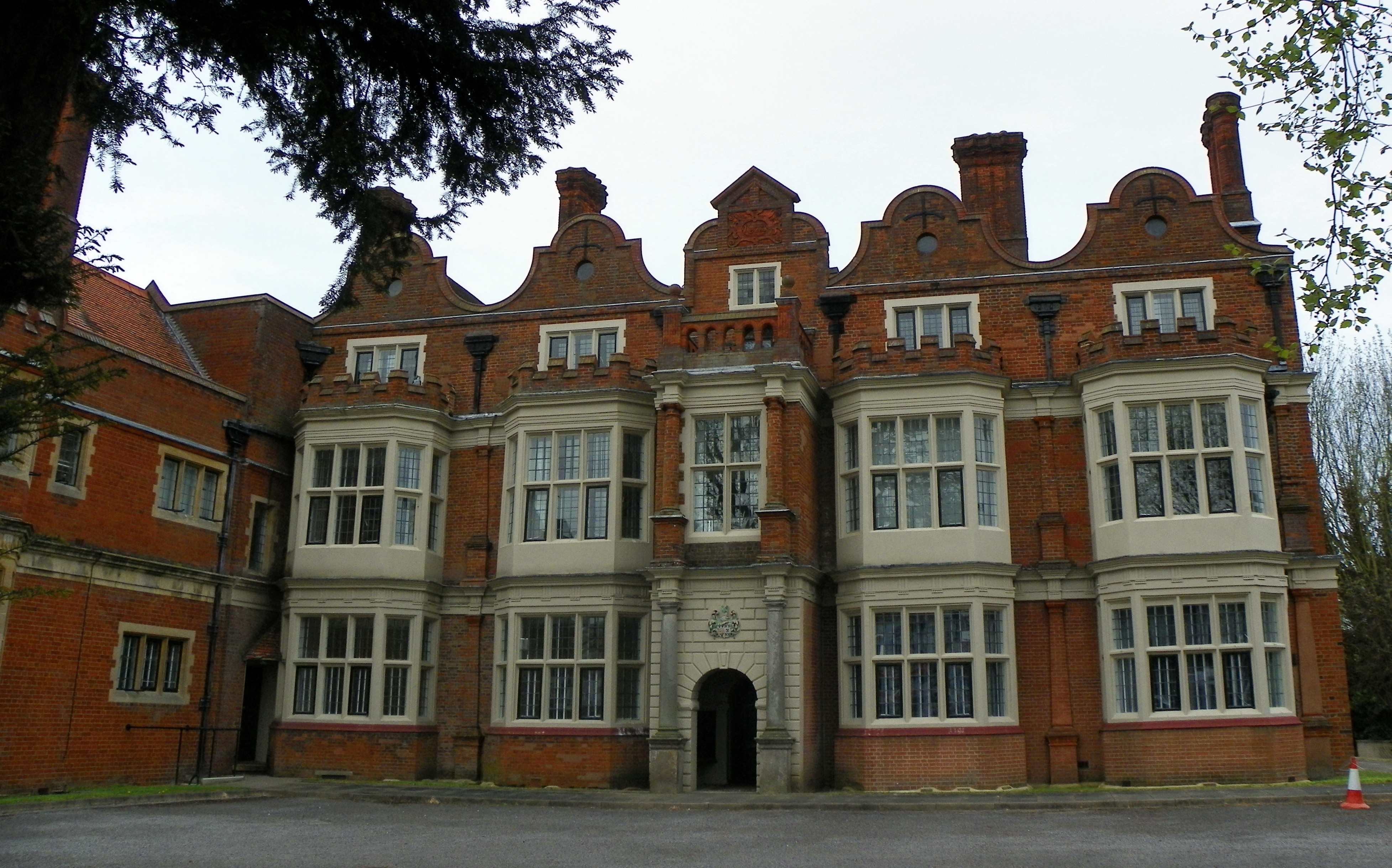 Rawdon House, High Street, Hoddesdon, Hertfordshire (Grade II*).